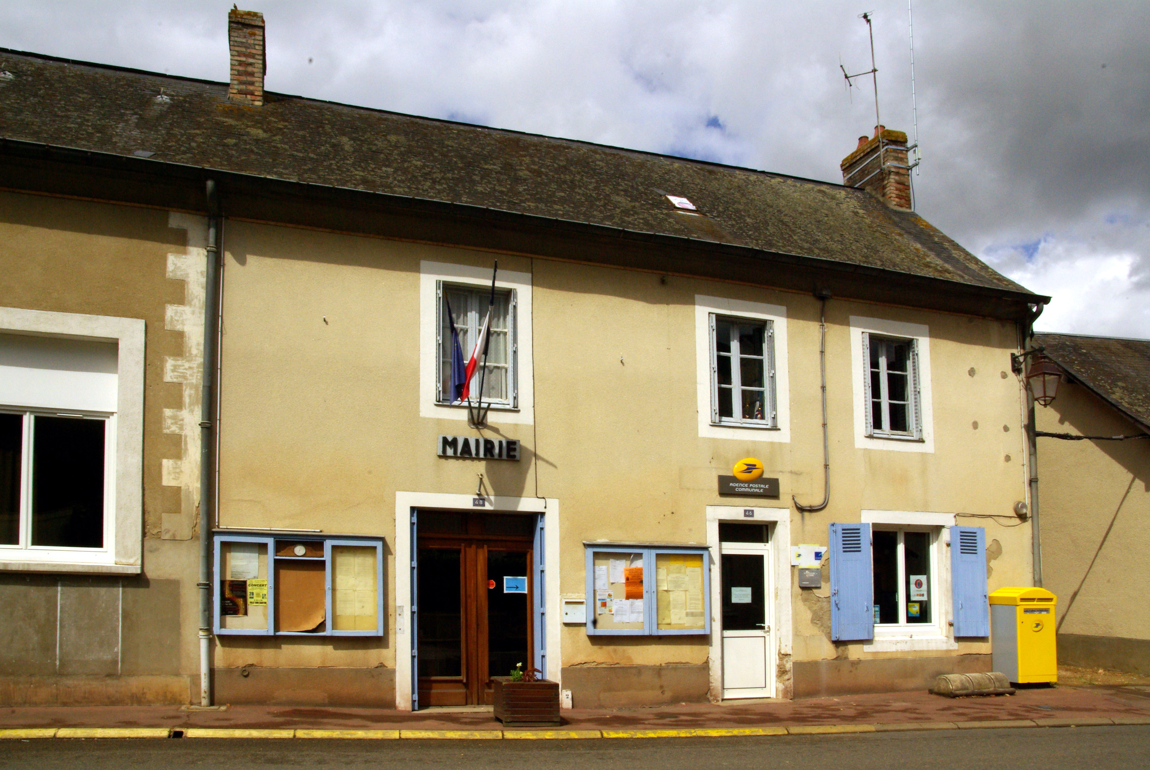 City Hall Fillé-sur-Sarthe